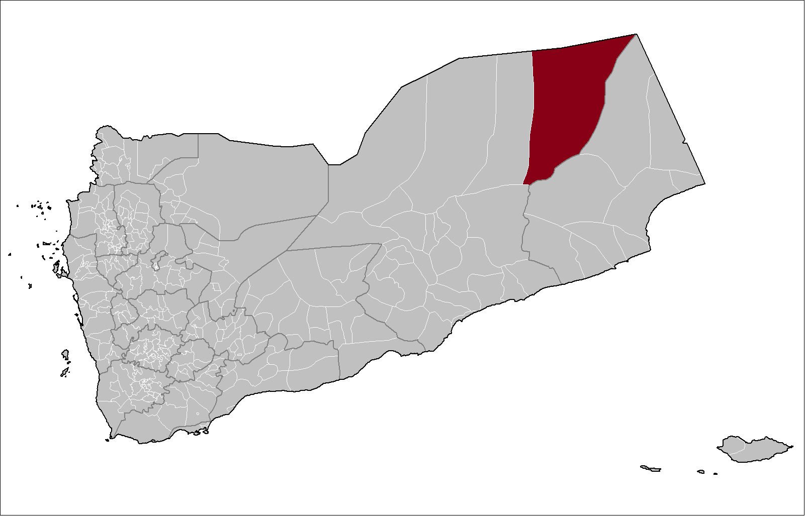 District locator of Rumah District in Hadhramaut Governorate, Yemen.